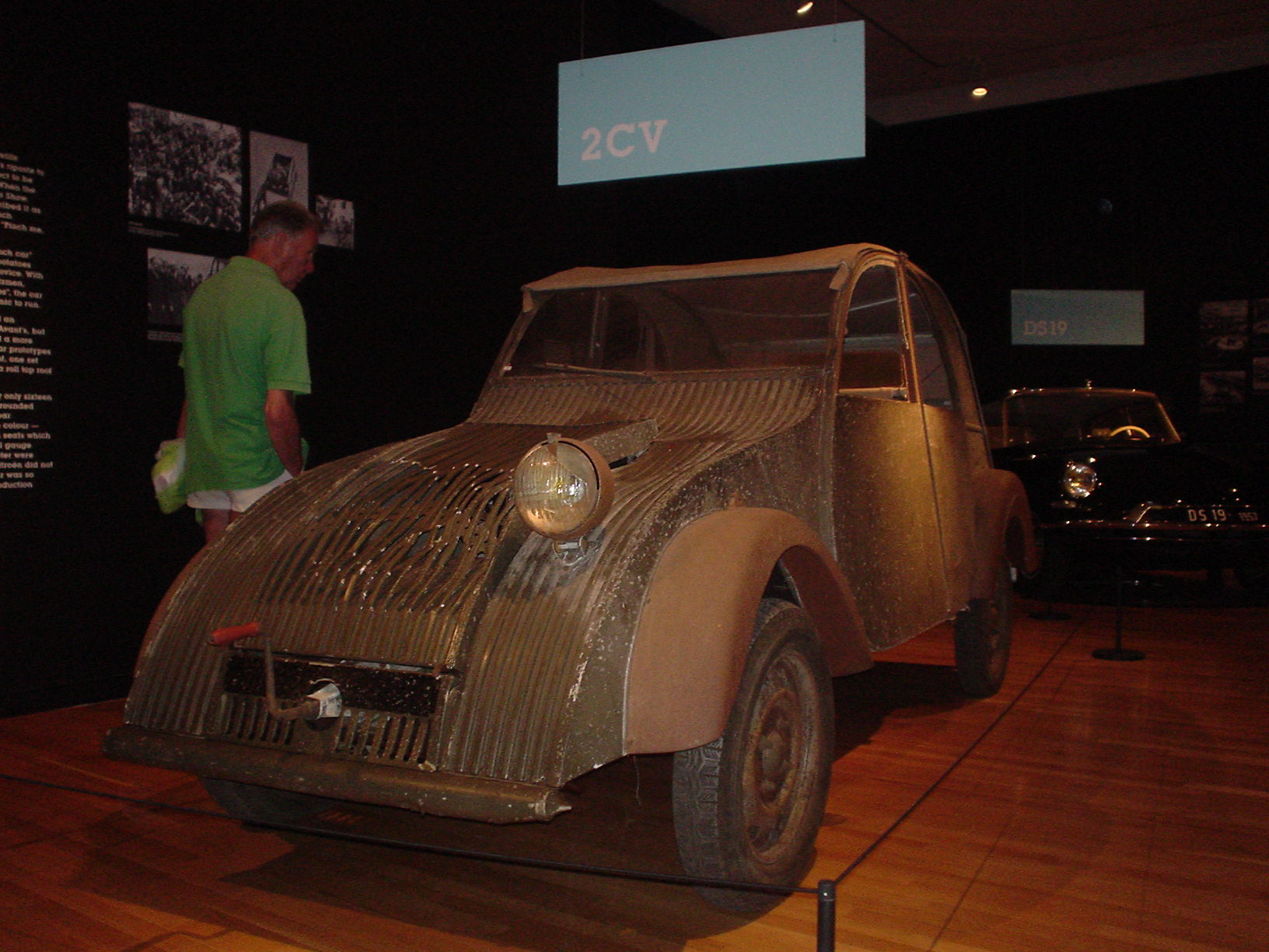 Citroën 2CV Prototype